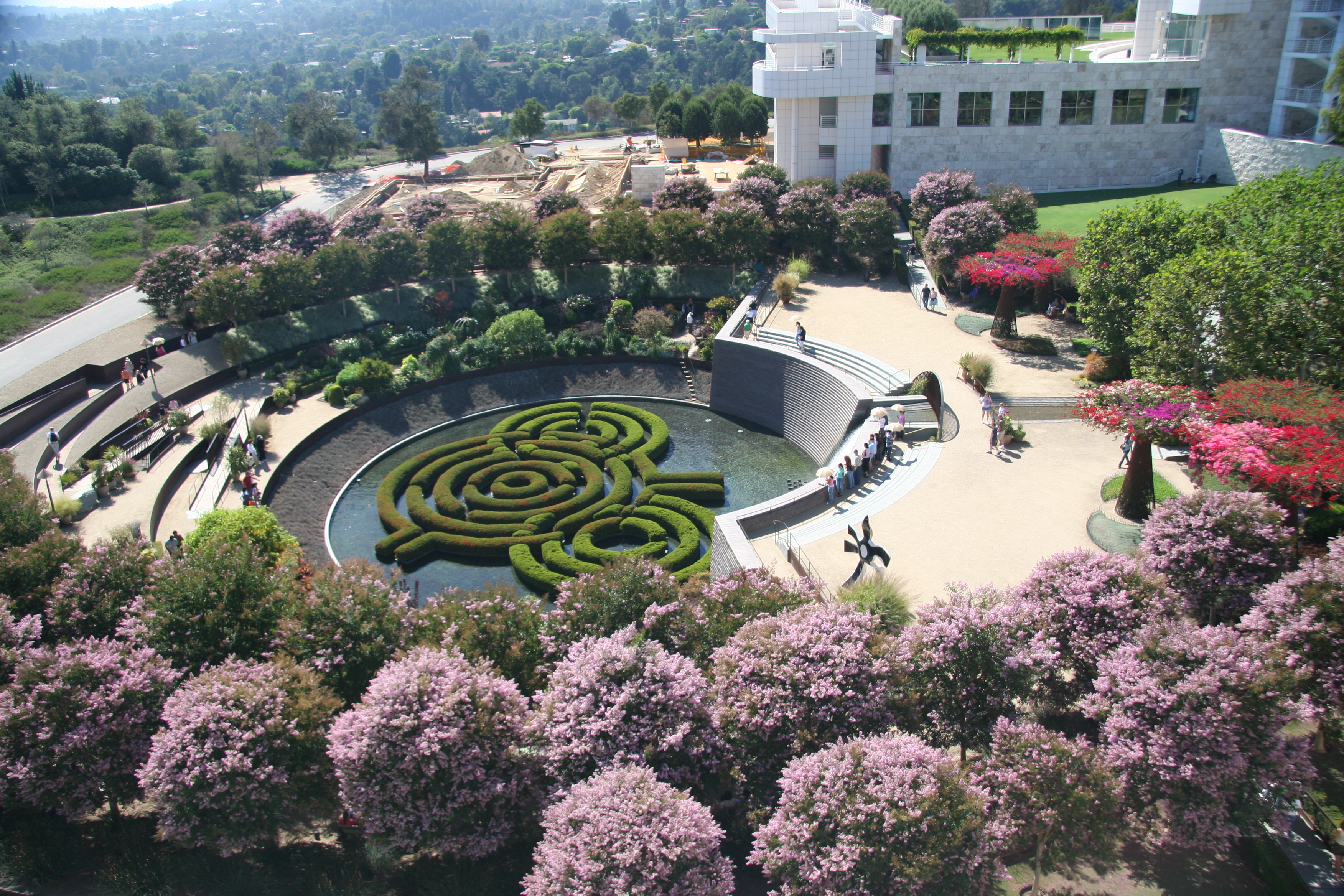 The Central Garden, Getty Center created by Robert Irwin "Always changing, never twice the same" The maze is created from Kurume azalea, which is a hybrid of Rhododendron obtusum and Rhododendron kiusianum, both native to the island of Kyushu, Japan. i091706 107